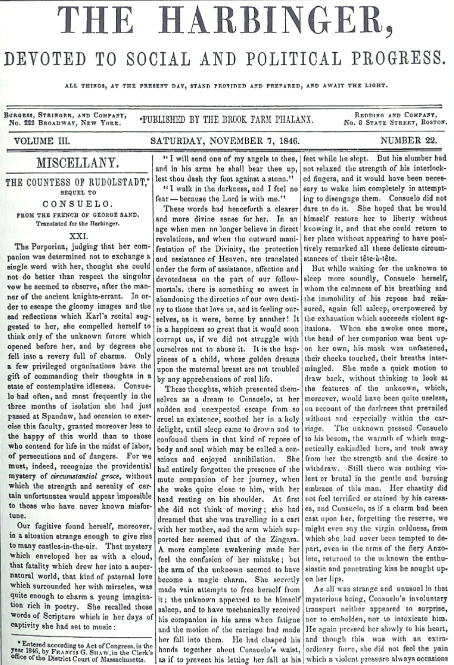 Cover page of The Harbinger from November 7, 1846. The Harbinger was a journal based on Associationist ideals and Transcendentalism produced by the members of the Brook Farm community in West Roxbury, Massachusetts.